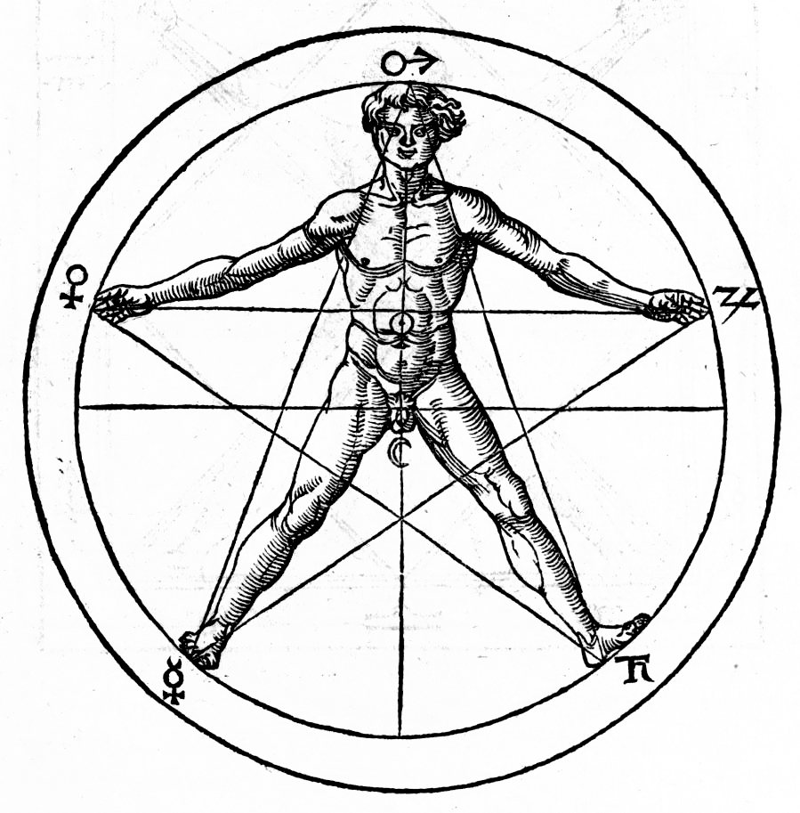 Image of a human body in a pentagram from Heinrich Cornelius Agrippa's Libri tres de occulta philosophia. Symbols of the sun and moon are in center, while the other five classical "planets" are around the edge.